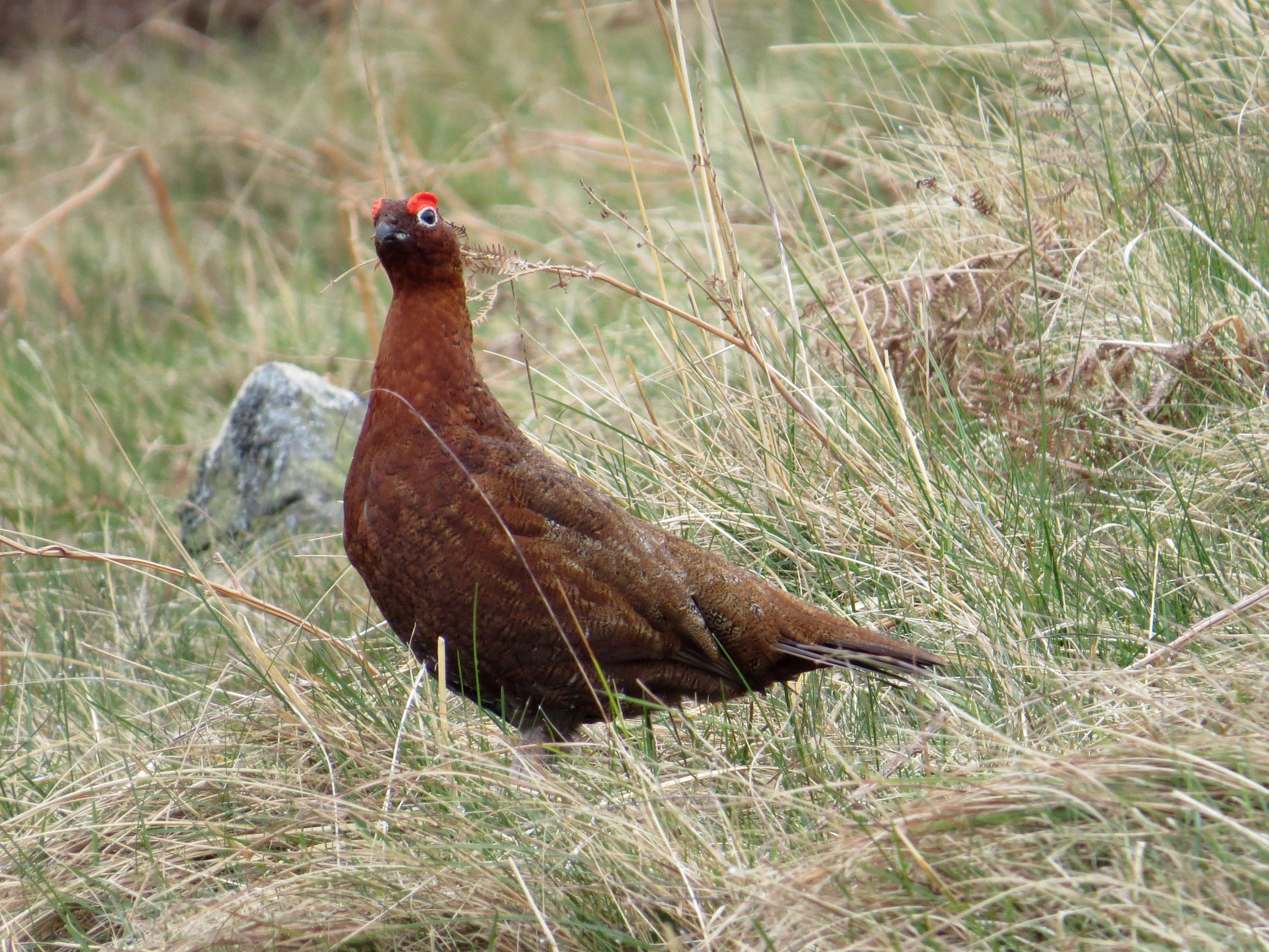 Red Grouse Lagopus lagopus scotica ♂, Hawsen Burn, Cheviot Hills, Northumberland